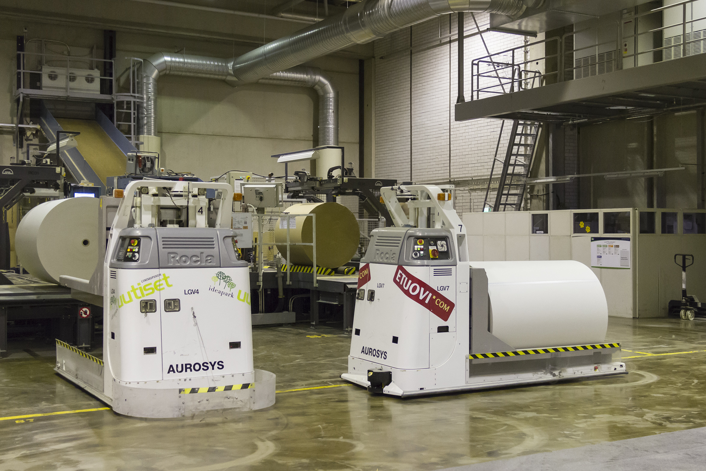 Rocla AGV's in Sanomala